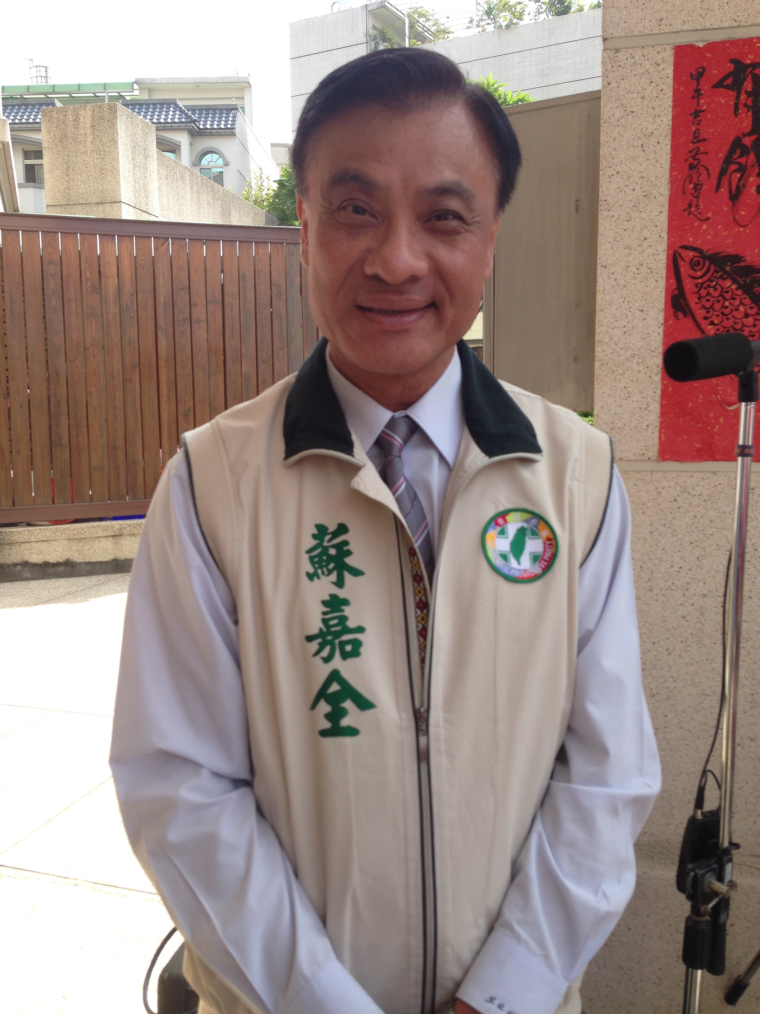 Su Chia-chyuan